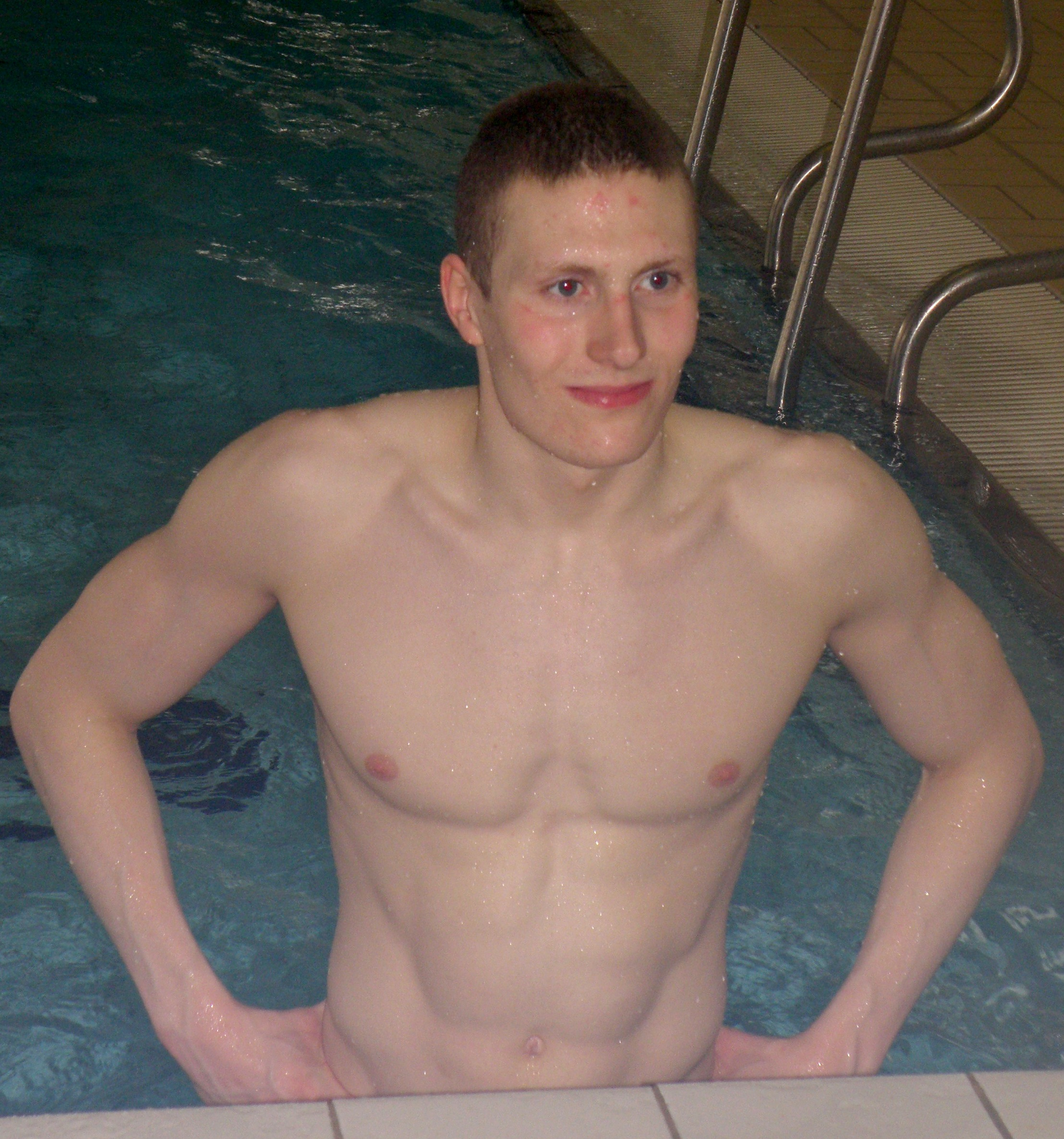 Pál Joensen is a Fareose swimmer. He won three gold medals in the European Junior Swimming Championship in Belgrade 2008. Pál won the gold medals in 400m, 800m and 1500m freestyle. He comes from a village in Suðuroy which is called Vágur and has around 1400 inhabitants. Later, in 2010, when he was old enough to swim with the adults, he won a silver medal in the European Swimming Championships (LC) in 1500 meters freestyle. On 31 Juli 2011 he was number four at the World Championship in Shanghai (LC) with the time 14:46.33. Joensen has qualified for the Olympic Games in London 2012, he will swim for Denmark, because the Faroe Islands are not recognized as an independent state. The Faroe Islands are a self-governing part of the Danish Kingdom just like Greenland. (Updated in August 2011)